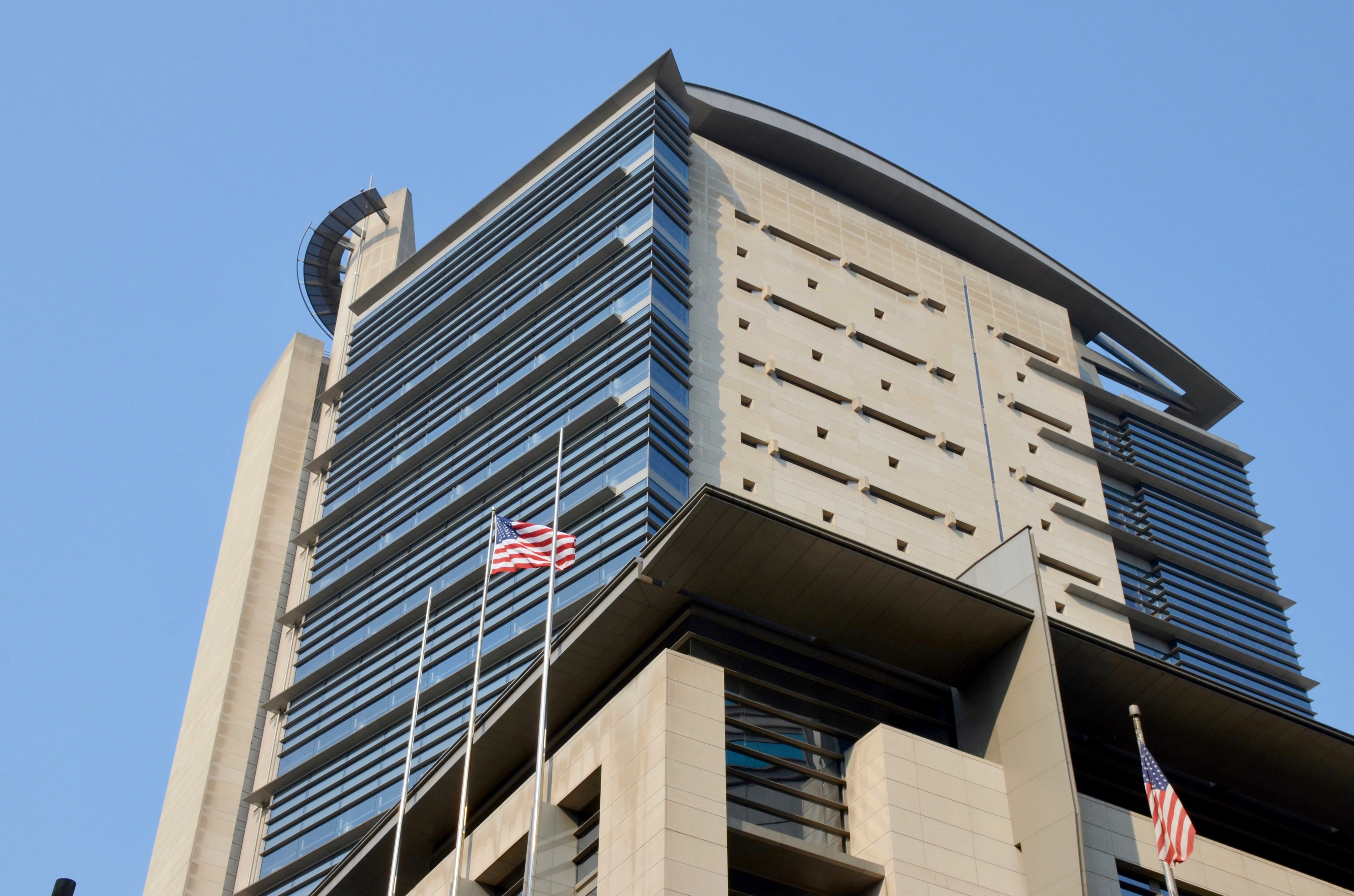 The upper portion of the Mark O. Hatfield United States Courthouse in Portland, Oregon, from the southwest.